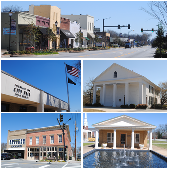 Collection of photos I took around Fountain Inn